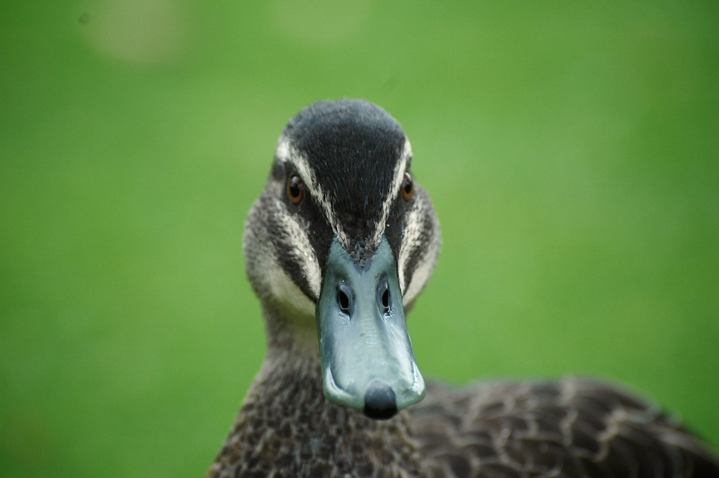 Pacific Black Duck, Kings Park, 2009.